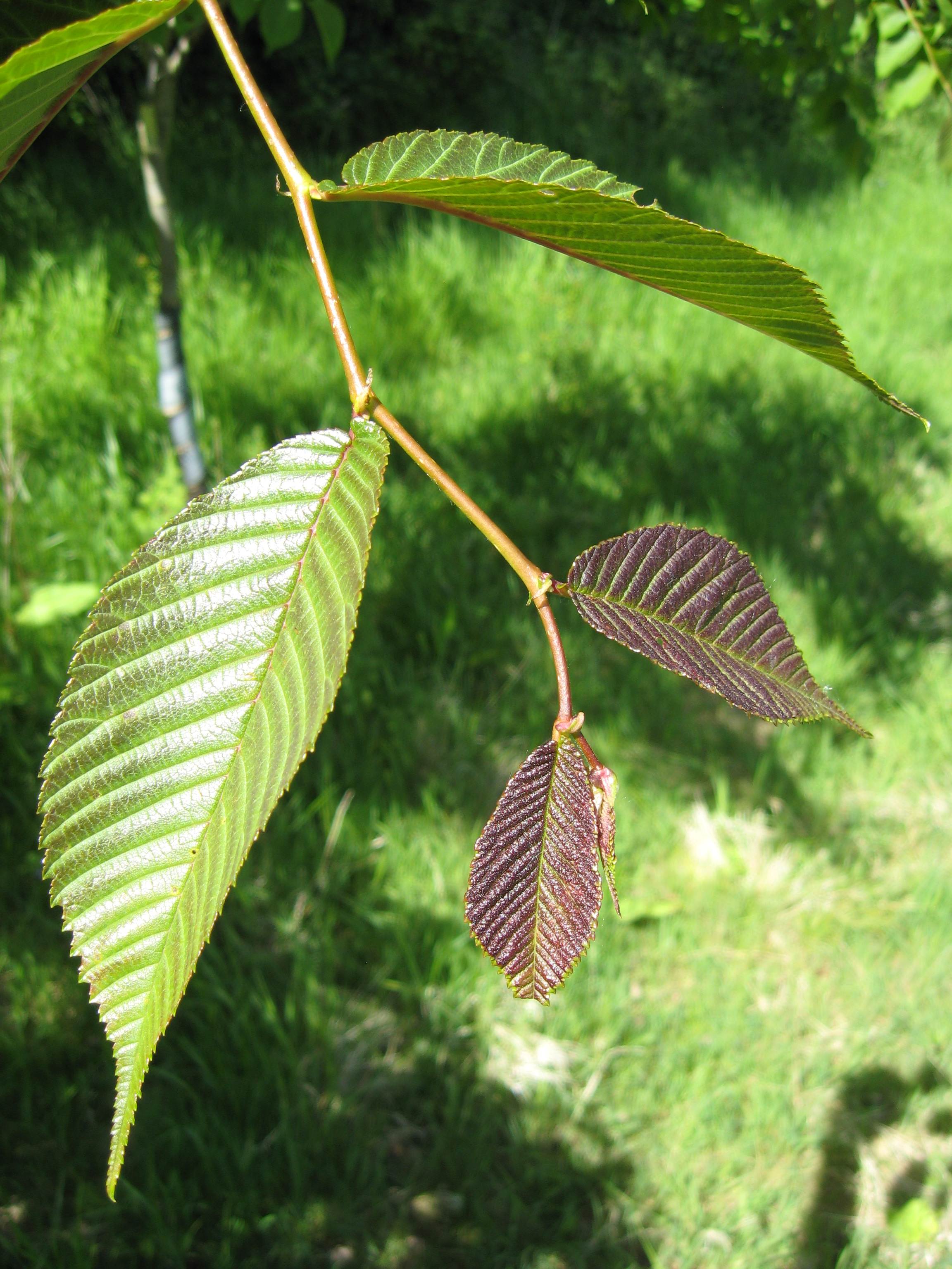 Photo of emergent foliage of Ulmus davidiana.